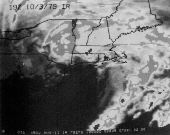 Satellite image of the Northeastern United States around the time the Windsor Locks, Connecticut tornado touched down.